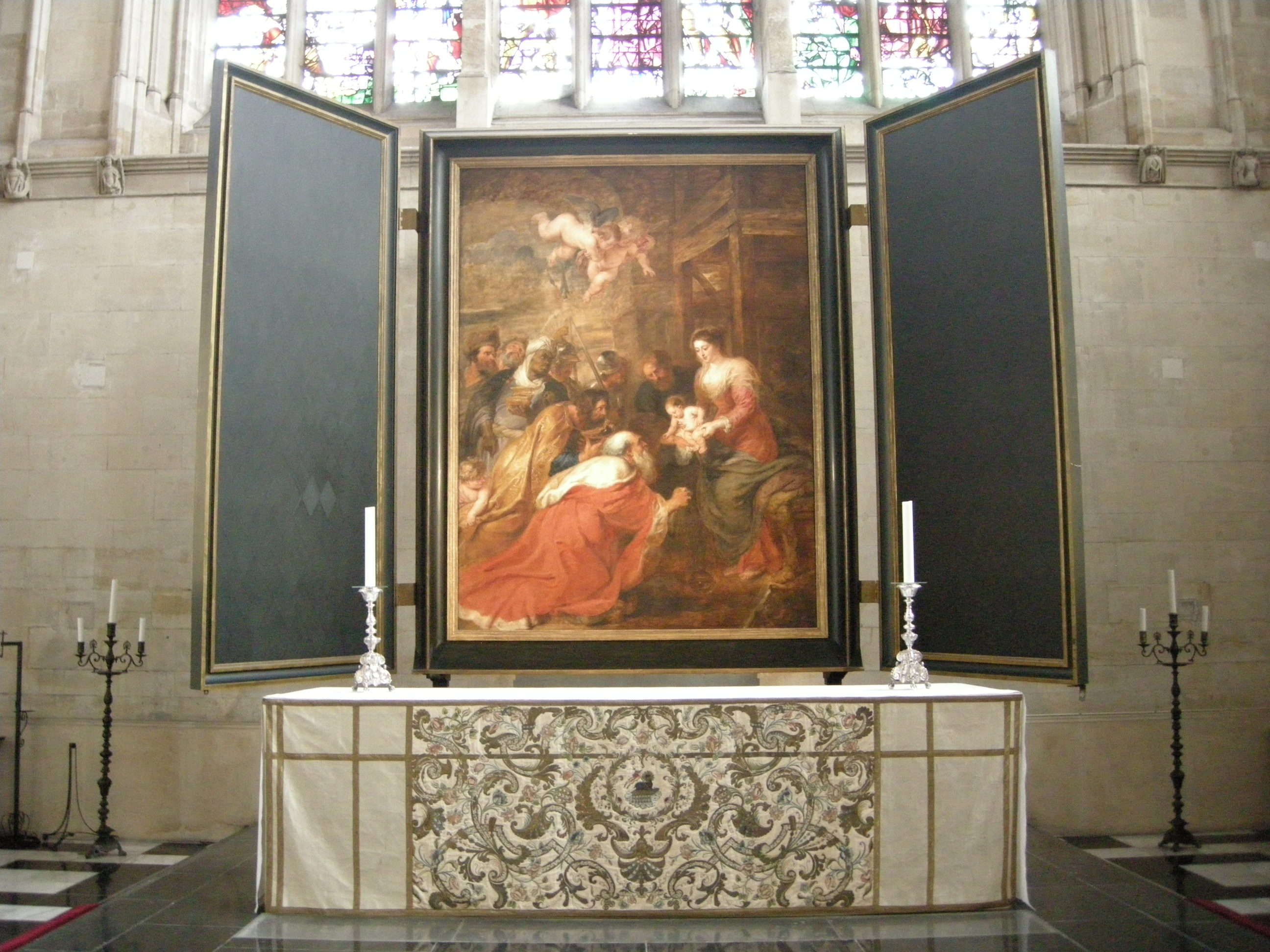 King's College Chapel, Cambridge, altare